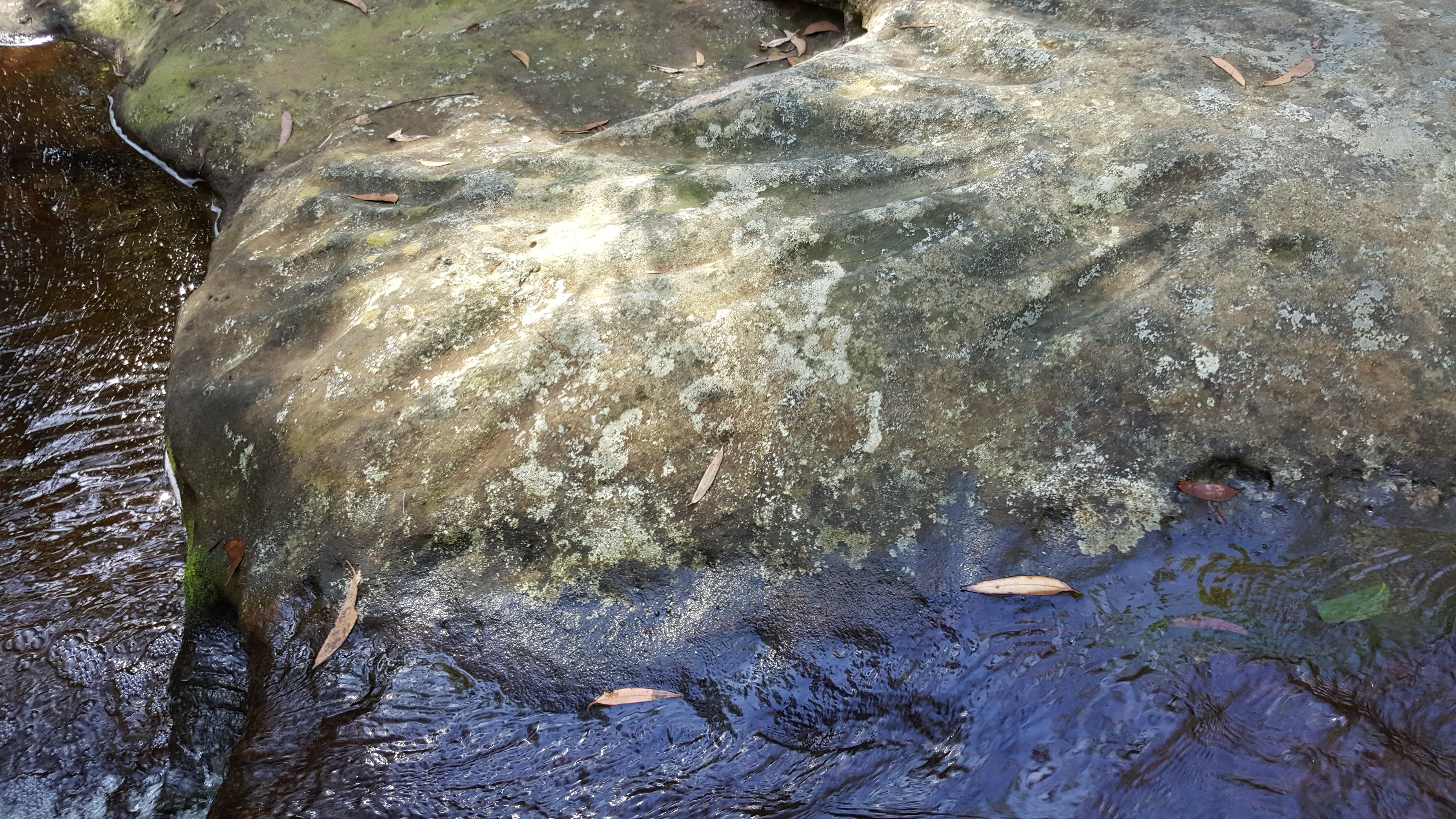 Tool-sharpening groves made by the Wandandian (Aboriginal) People in sandstone rock near the route of The Wool Road outside Vincentia, New South Wales, Australia.